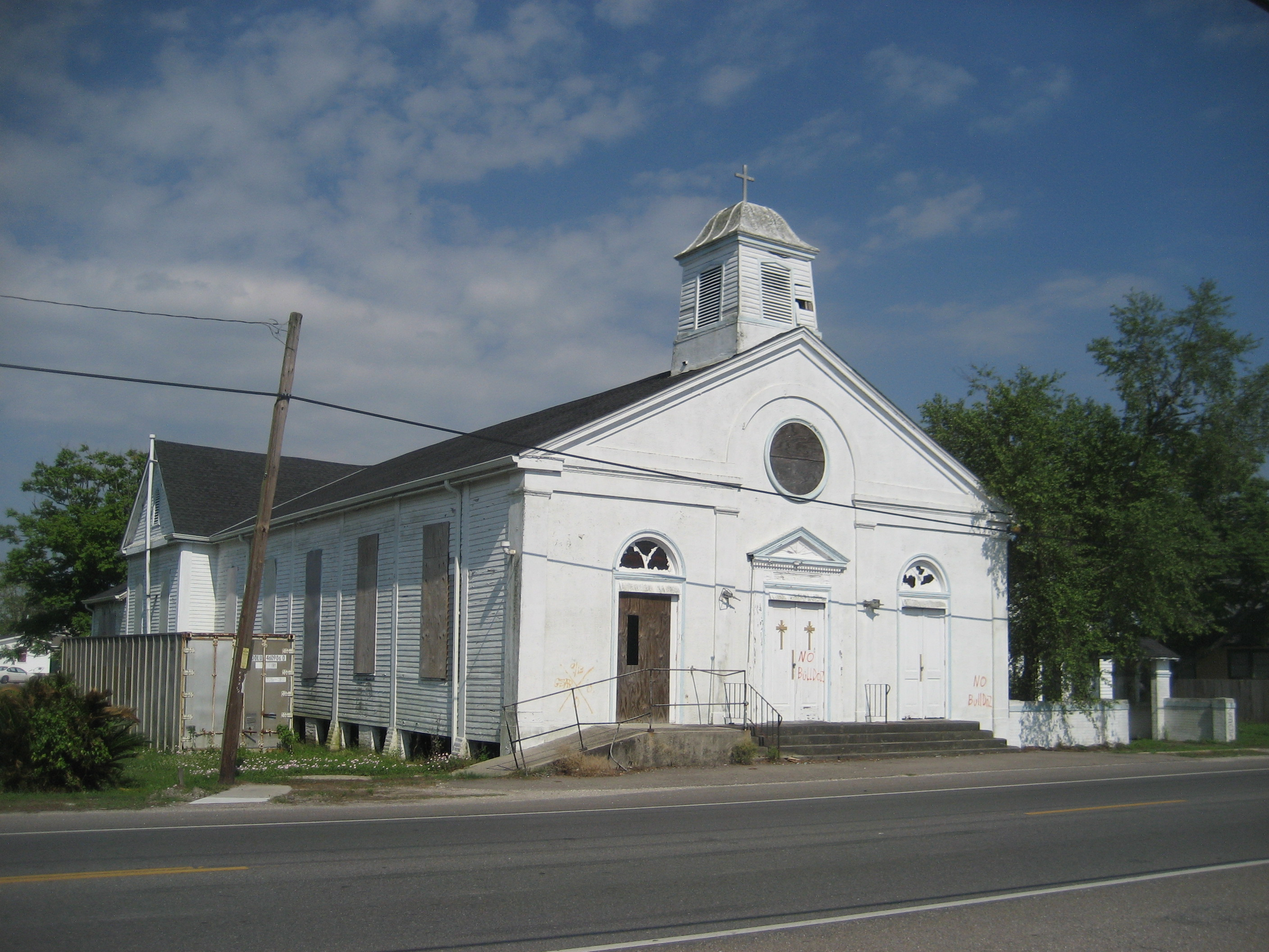 Our Lady of Lourdres Church building, St. Bernard Highway, Violet, Louisiana.